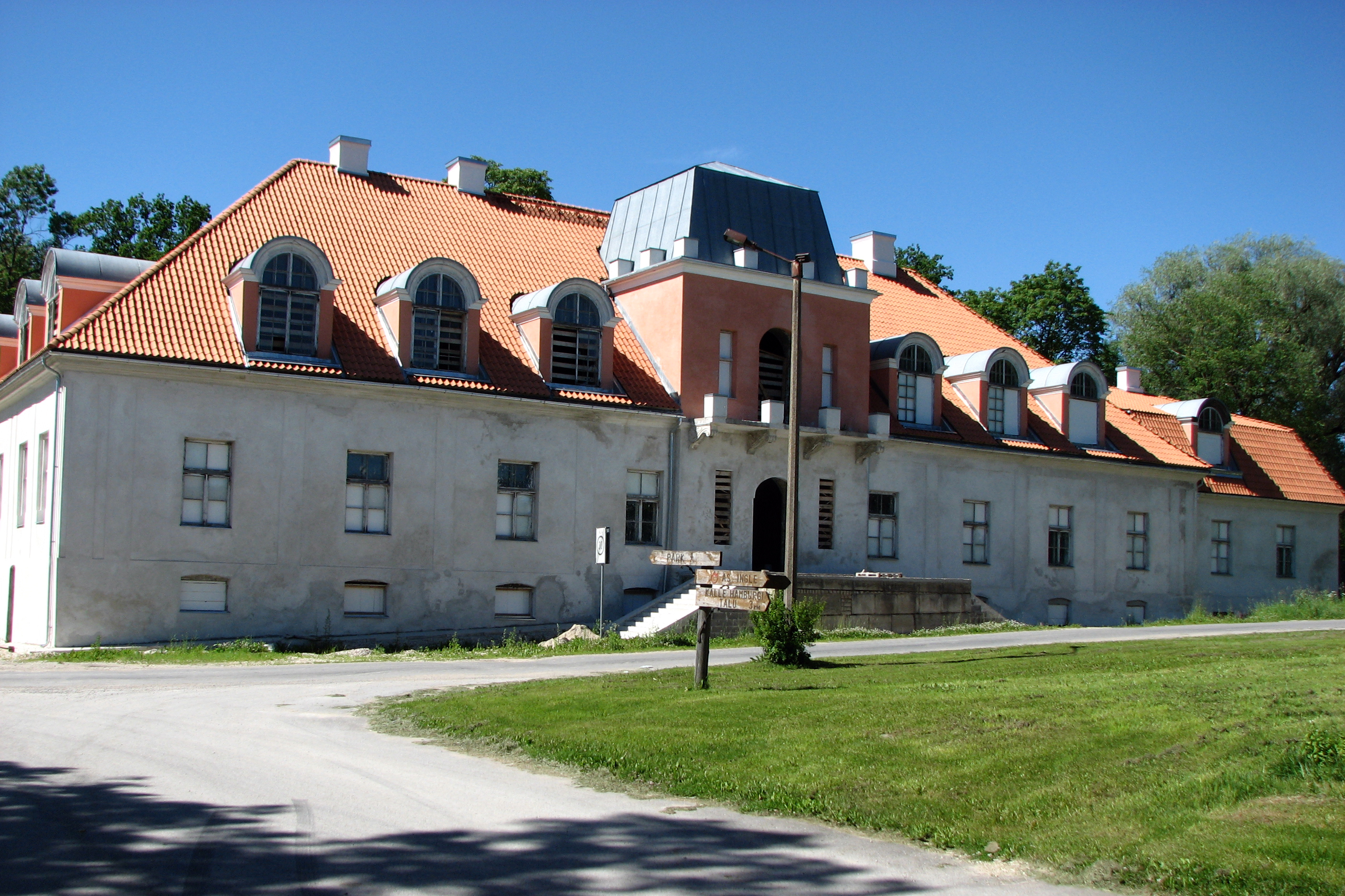 Ingliste manor house